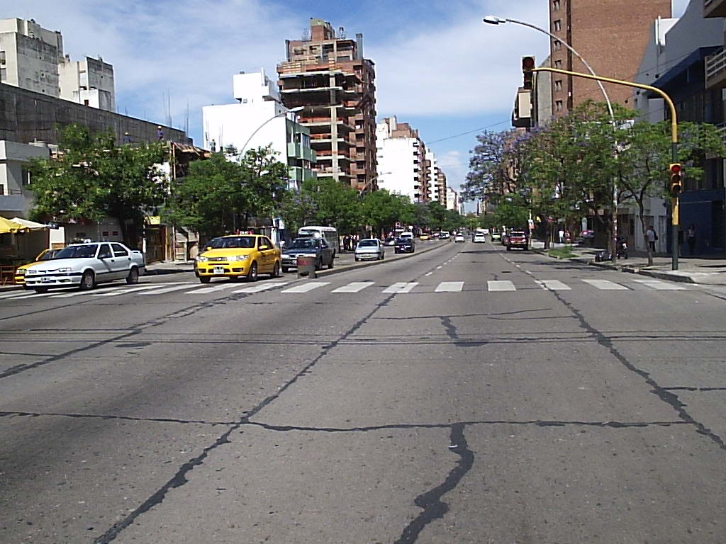 View to the east at the intersection of San Juan boulevard and Arturo M. Bas st. Córdoba, (Argentina).